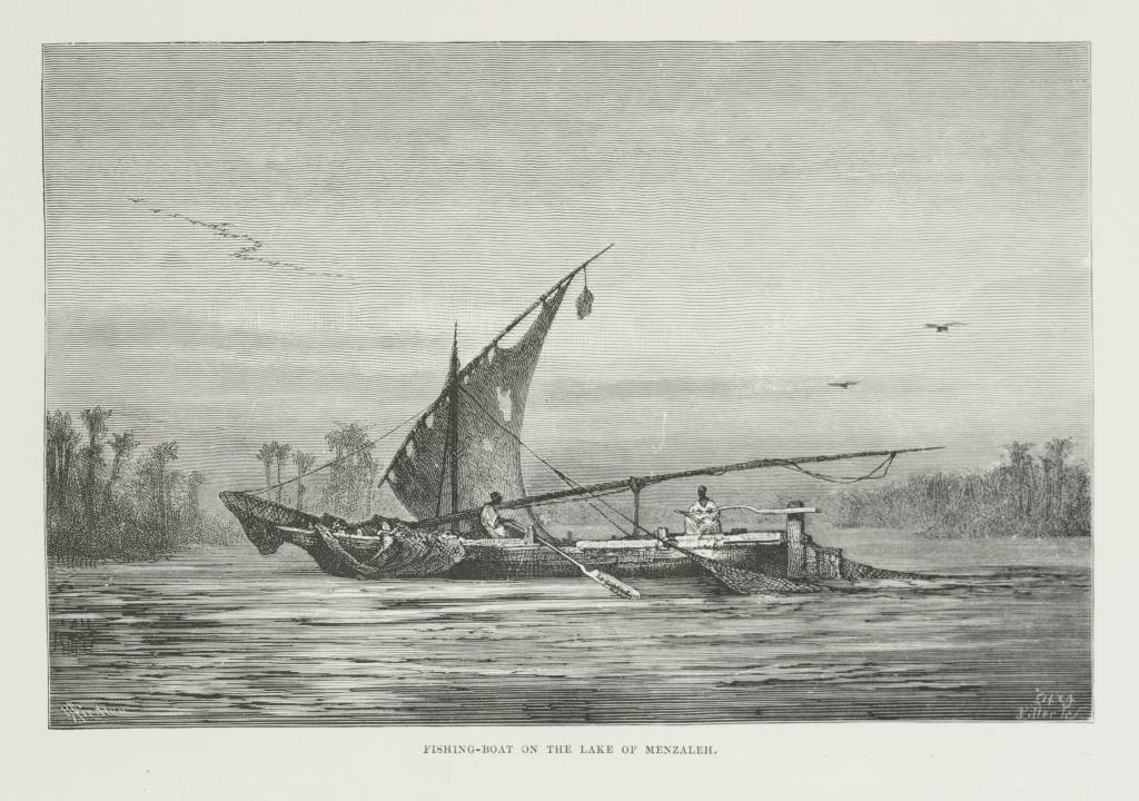 A long sailboat with a tattered sail trawling for fish in the Lake of Menzaleh.